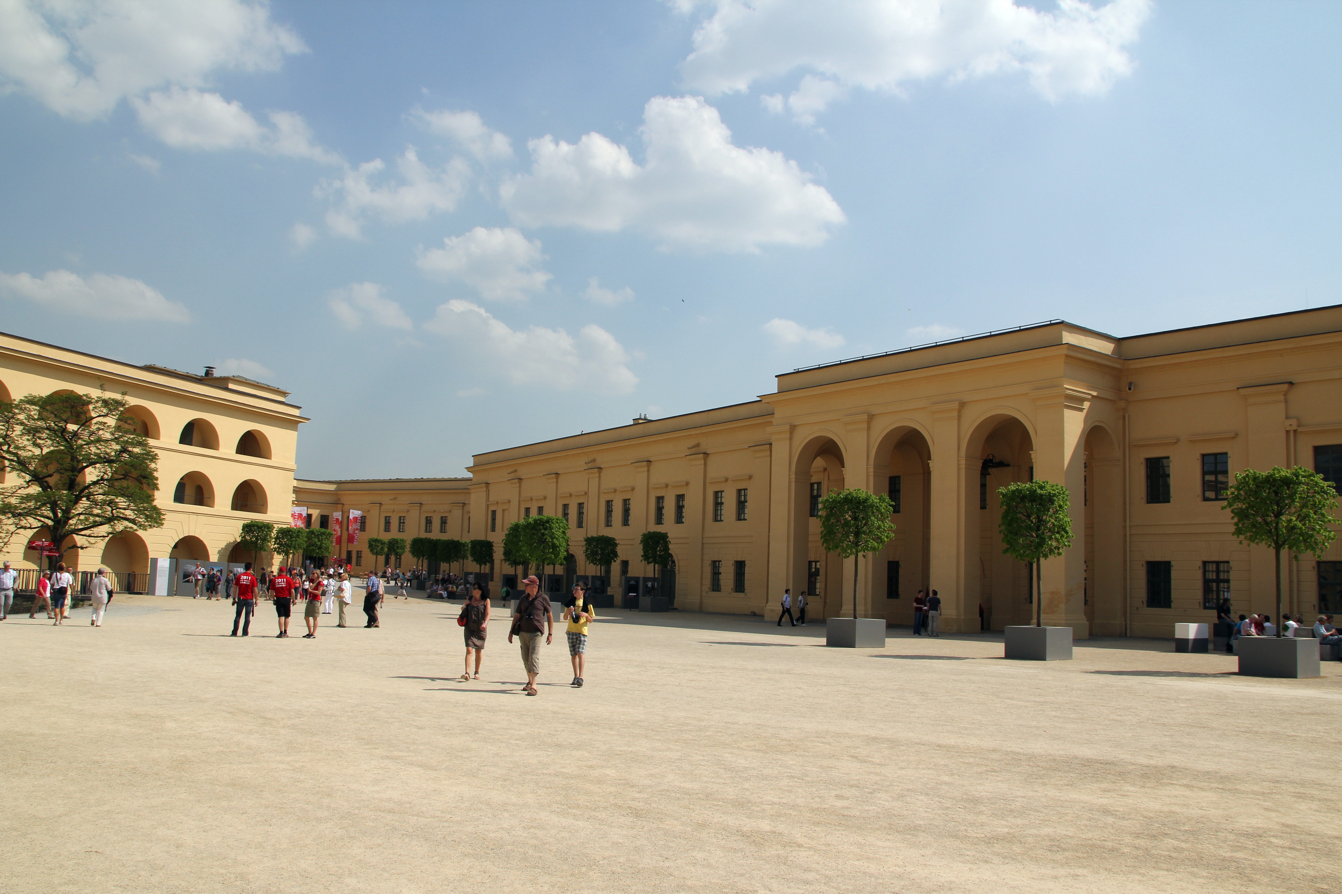 Federal Horticultural Show 2011 in Koblenz - Ehrenbreitstein Fortress